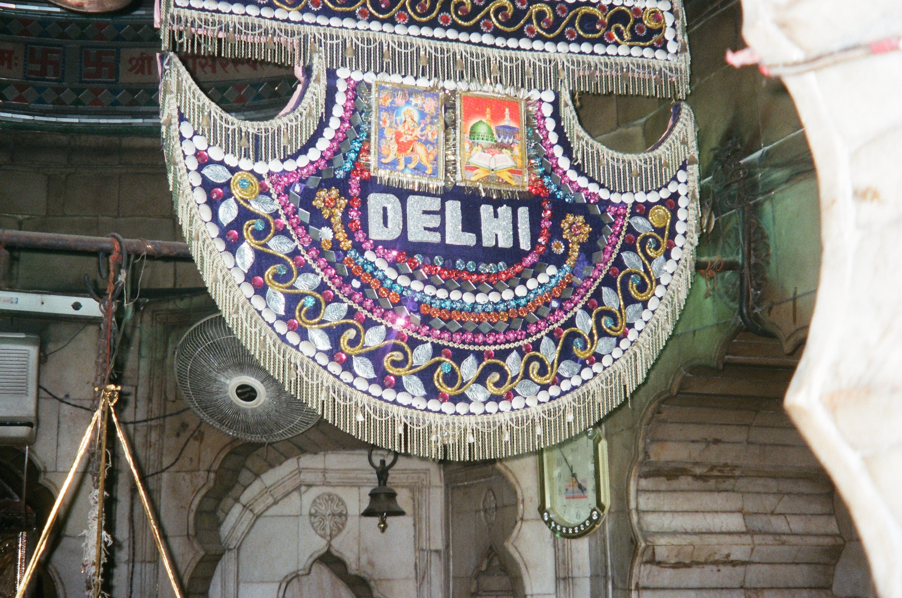 Panka over the Idol of Yogmaya in the sanctum